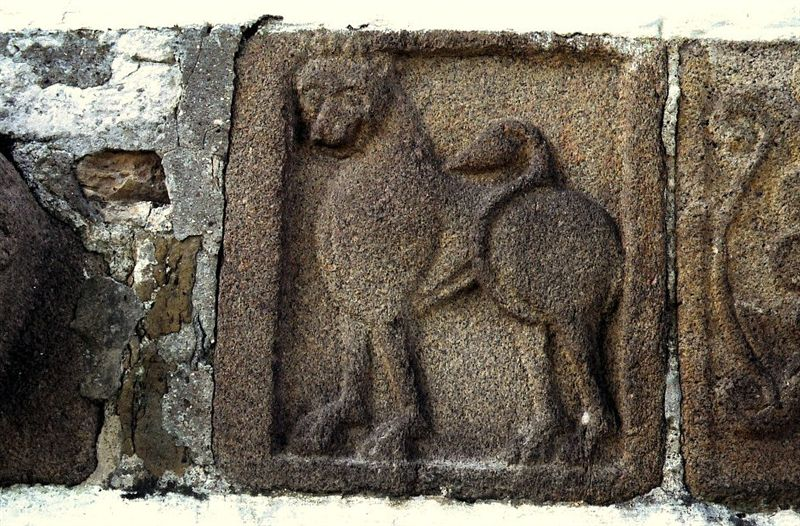 Thisted Kirke (church)